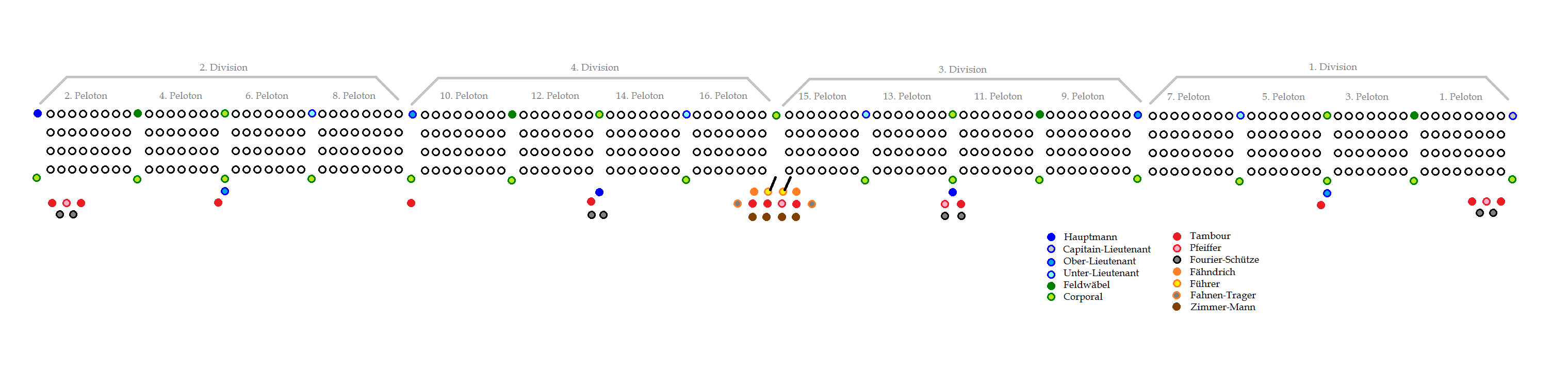 Austrian infantry battalion in 1749.